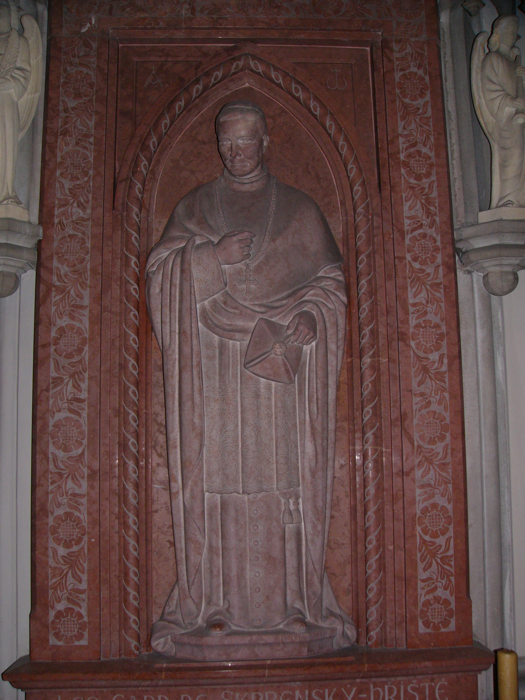 Tombstone of Lev Skrbenský z Hříště in St. Wenceslaus cathedral in Olomouc (Czech Republic).